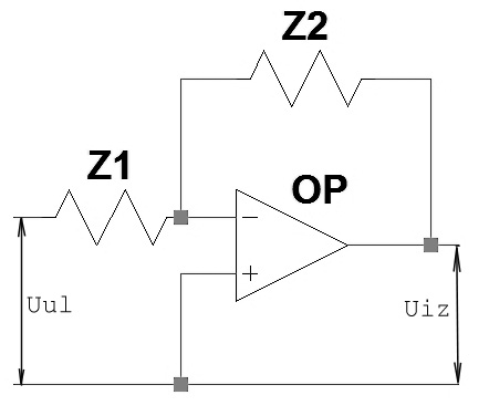 Uopšteni prikaz kola sa operacionim pojačavačem